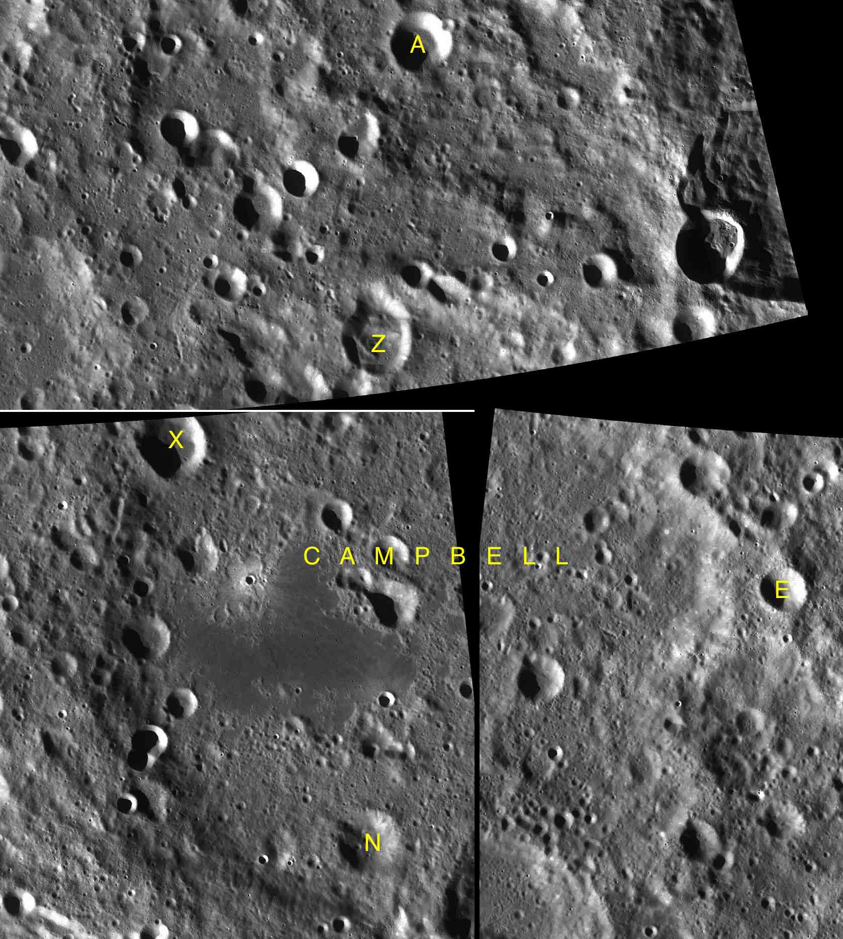 Parts of the charts LAC-17, LAC-31, LAC-32 used for the presentation